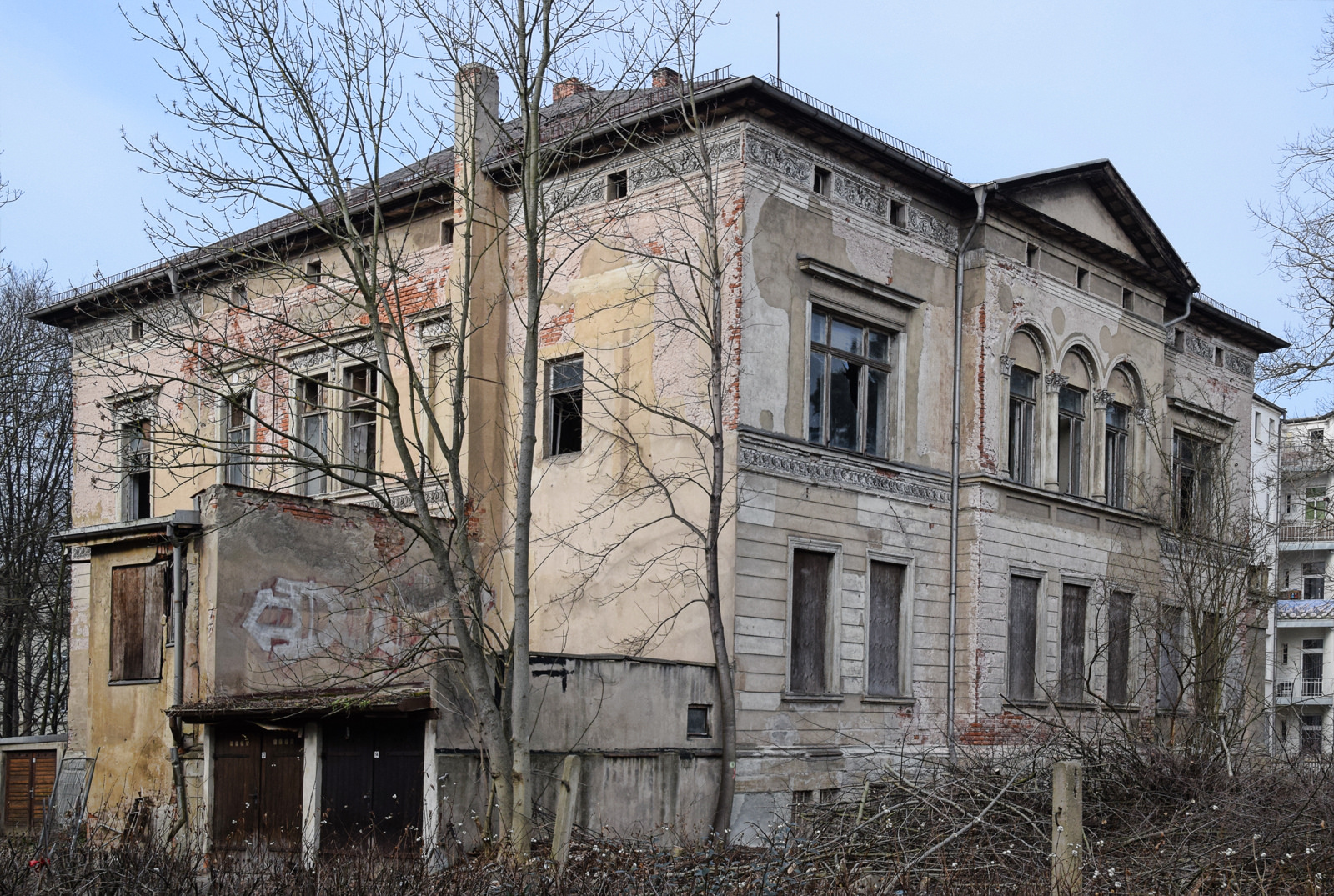 Villa Biermann at Leibnizstraße 1 in Gera, Germany; built in 1897